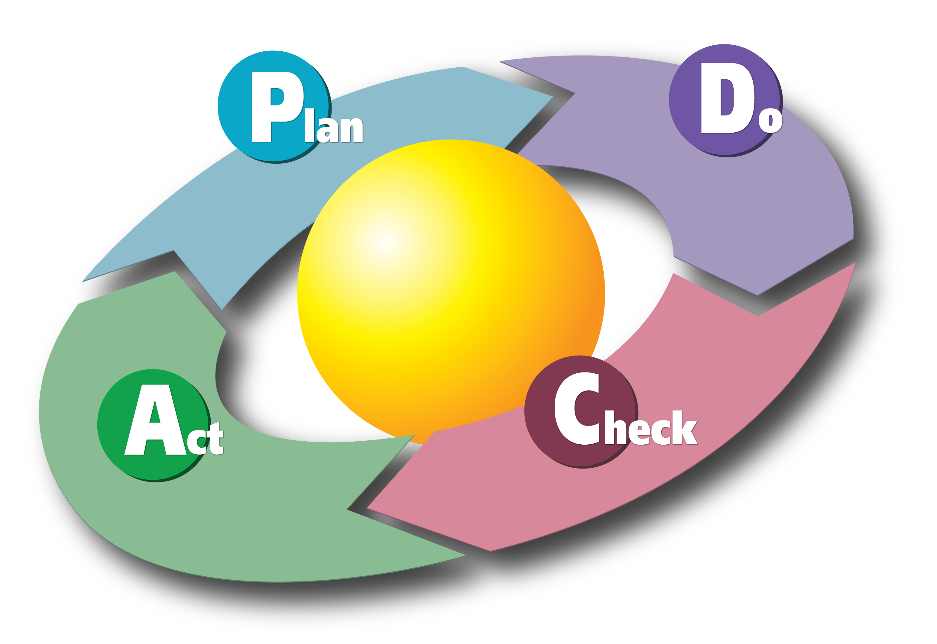 A diagram showing the PDCA Cycle. This version was designed for everyone to view, since not everyone has the ability to use and manipulate a SVG file.